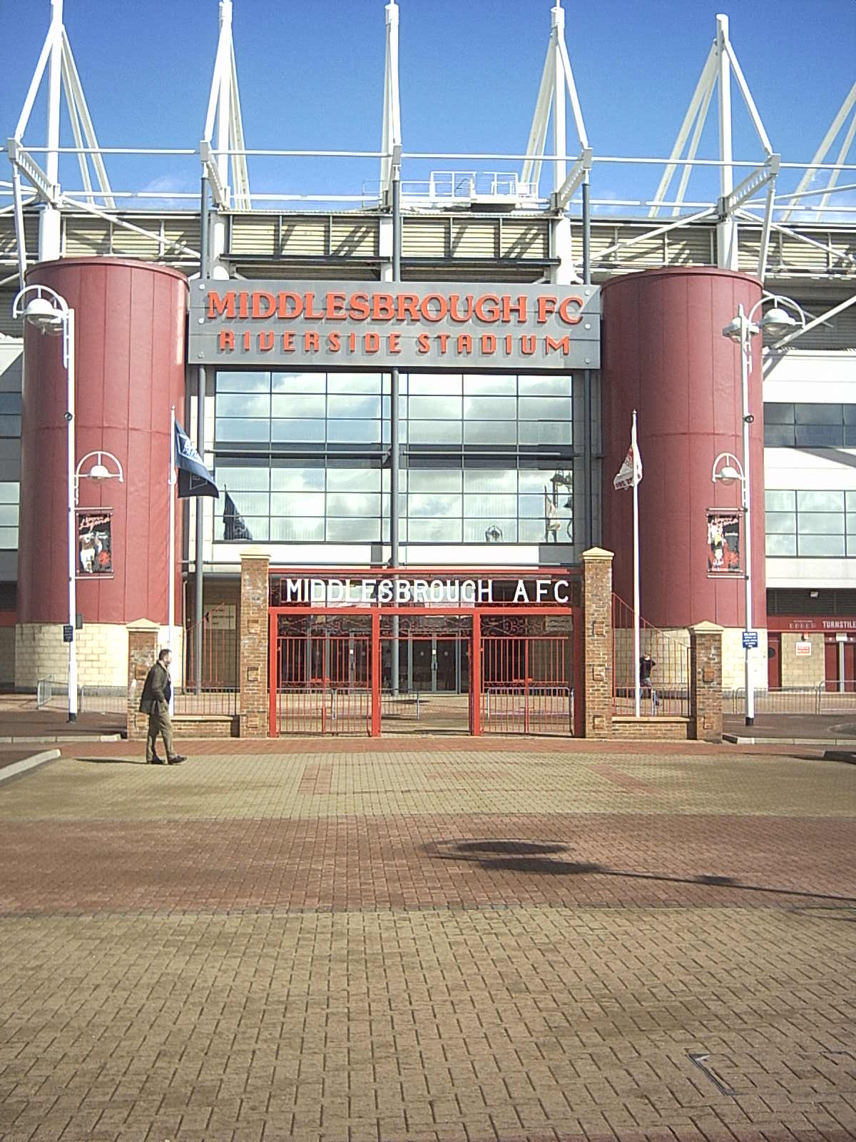 Riverside Stadium, Middlesbrough, with the Old gates outside.